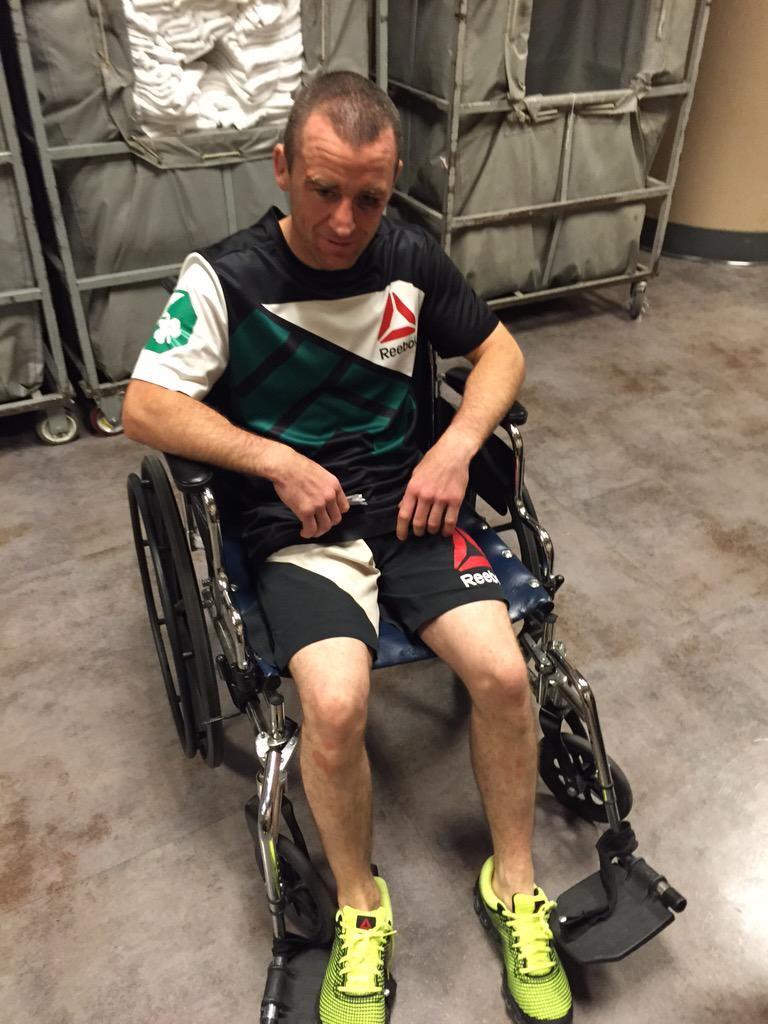 Vegas Baby